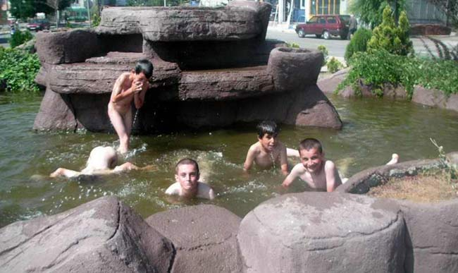 Boys skinny dipping